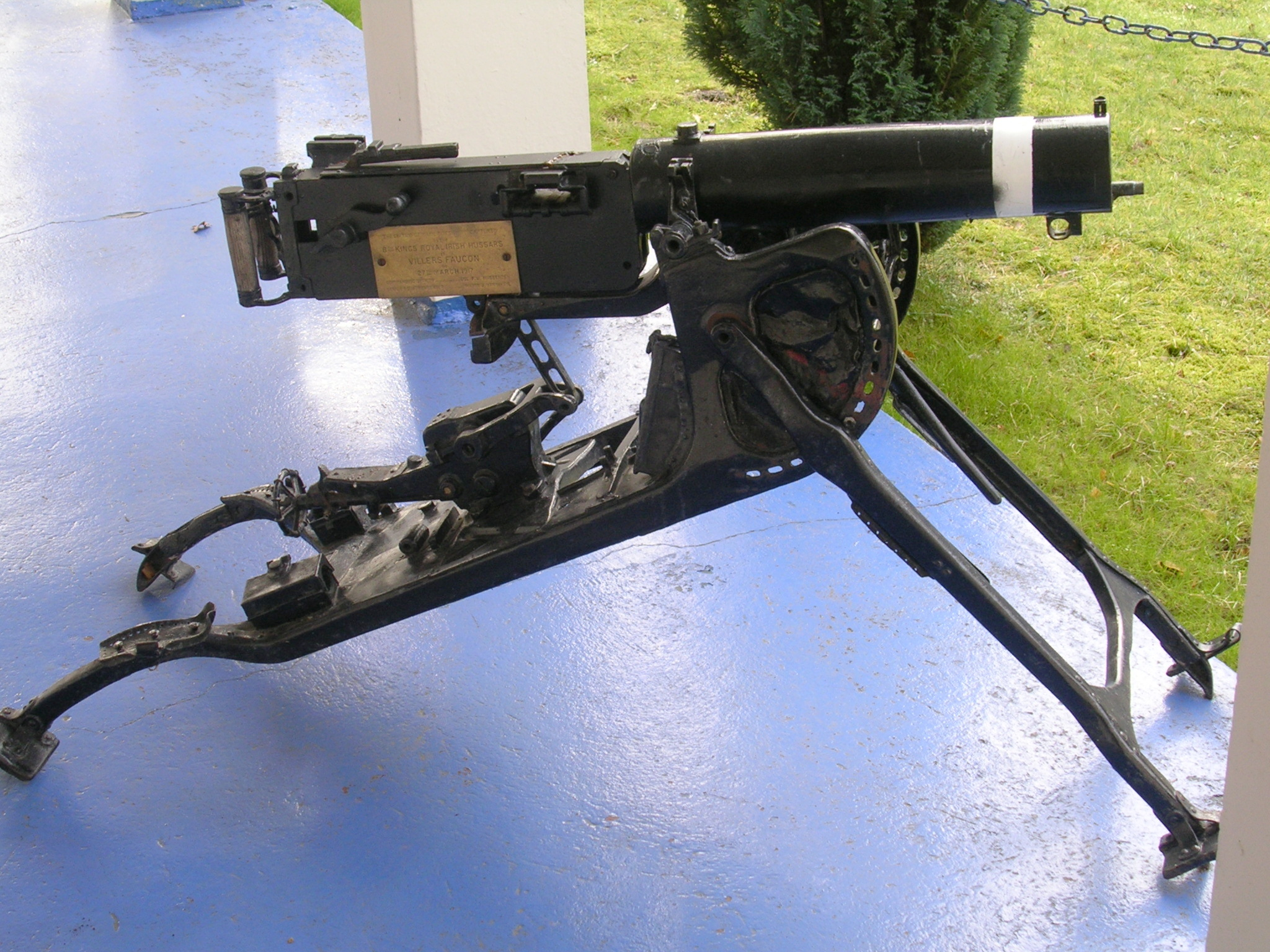 German MG08 water-cooled machine gun. One of two captured by the 8th Hussars (British) on 27 March 1917 at Villiers Faucon in France